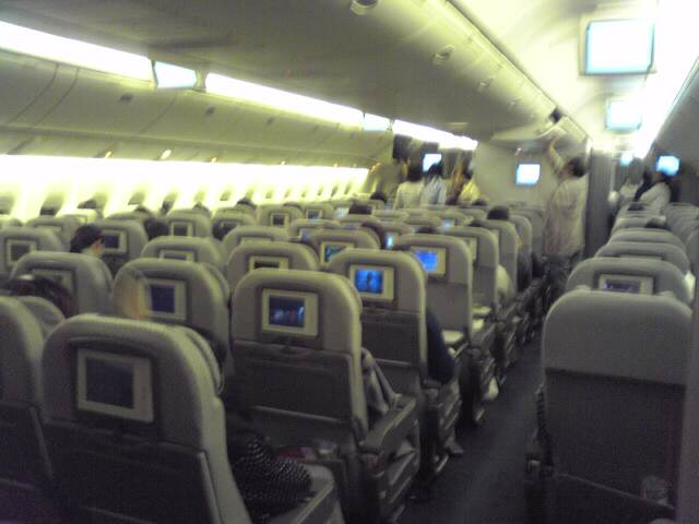 JALBoeing777-200ER Economy class Magic 3